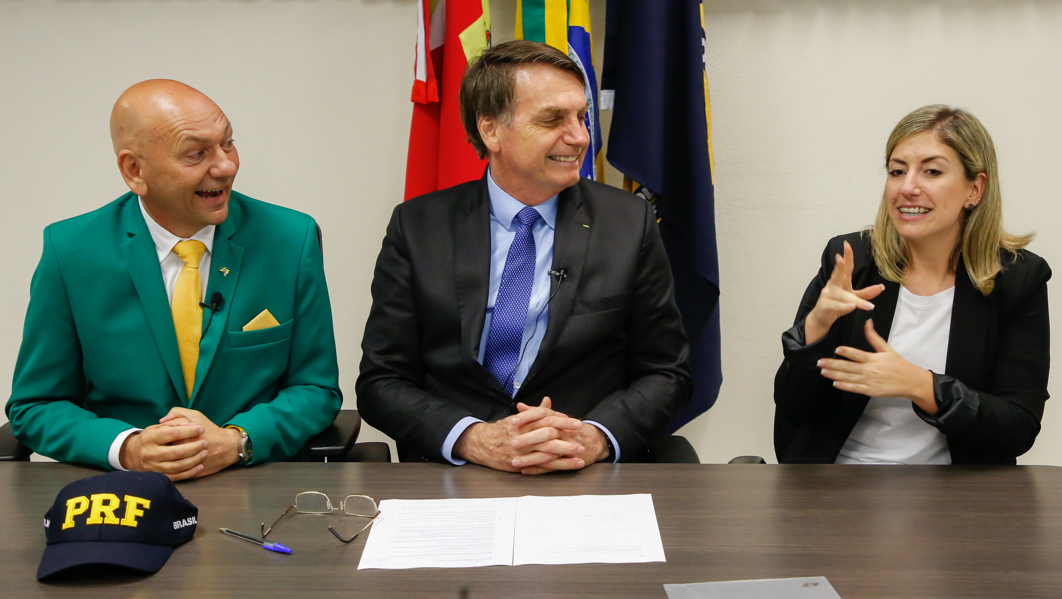 (Florianópolis - SC, 17/10/2019) Presidente da República, Jair Bolsonaro durante Transmissão de Live para redes sociais. Foto: Anderson Riedel/PR